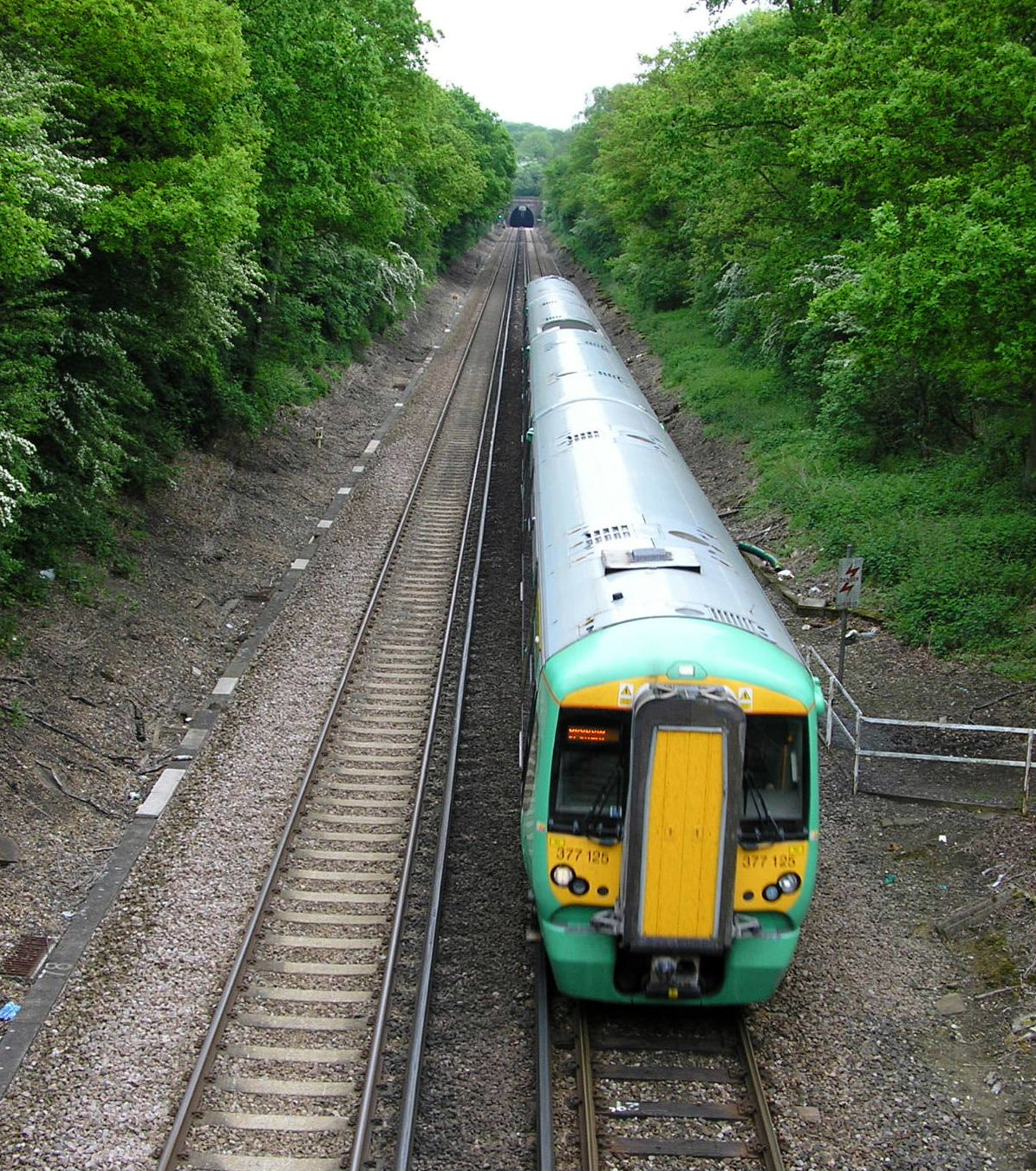 The Redhill to Tonbridge Line. Taken from the bridge in Outwood Lane, Bletchingley at grid reference TQ327488 looking east. Class 377 units are heading towards Redhill. The Bletchingley Tunnel can be seen in the distance. Unlikely though it may seem this line was part of the first rail route from London to Dover. The planners were not interested in serving the settlements en route so it takes a remarkably straight route.